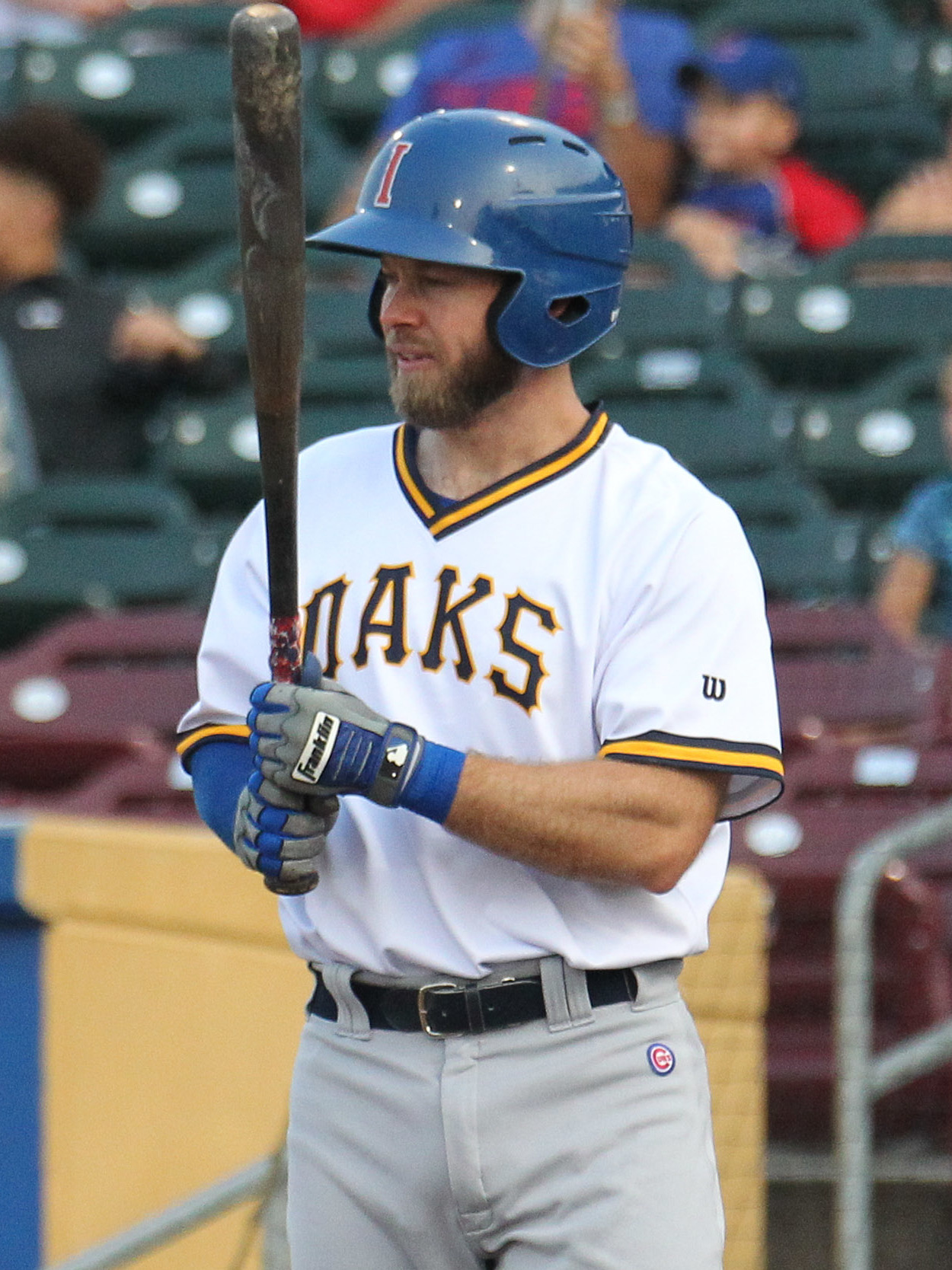 Mike Freeman bats for the Iowa Cubs against the Omaha Storm Chasers during an August 24, 2018 game at Werner Park in Omaha.